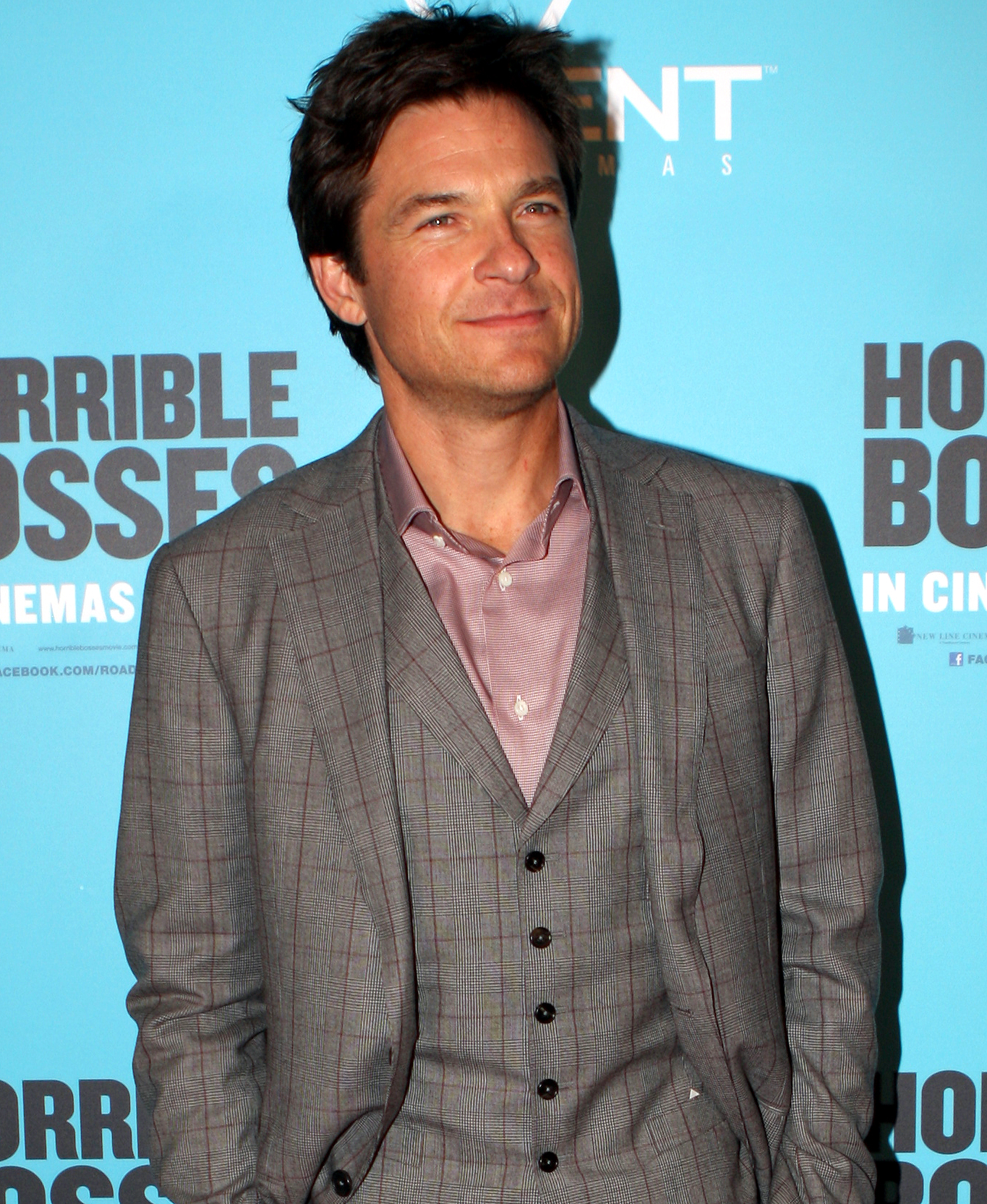 Jason Bateman at the Horrible Bosses Premiere 2011.